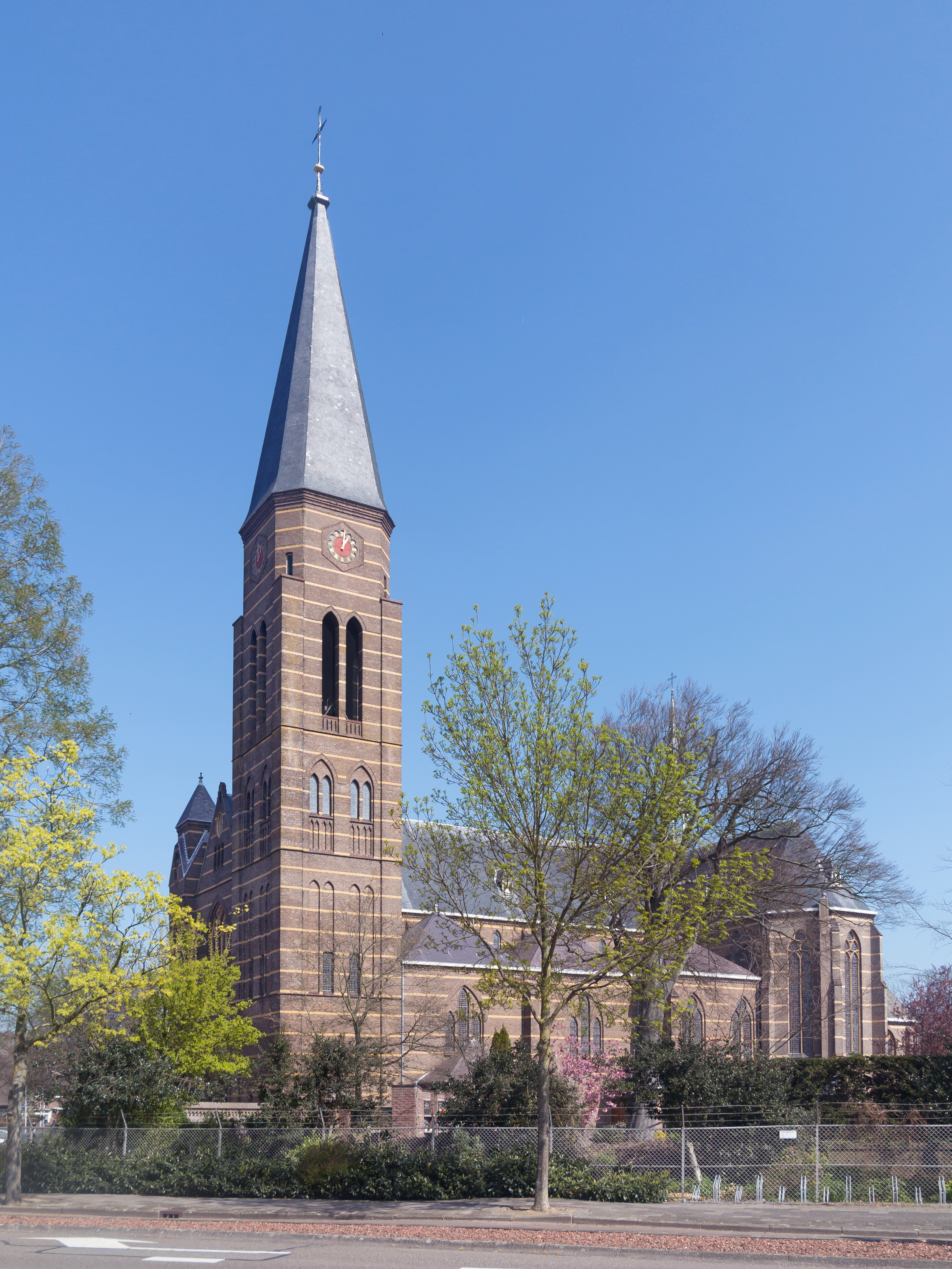 Sassenheim, church: de Sint Pancratiuskerk